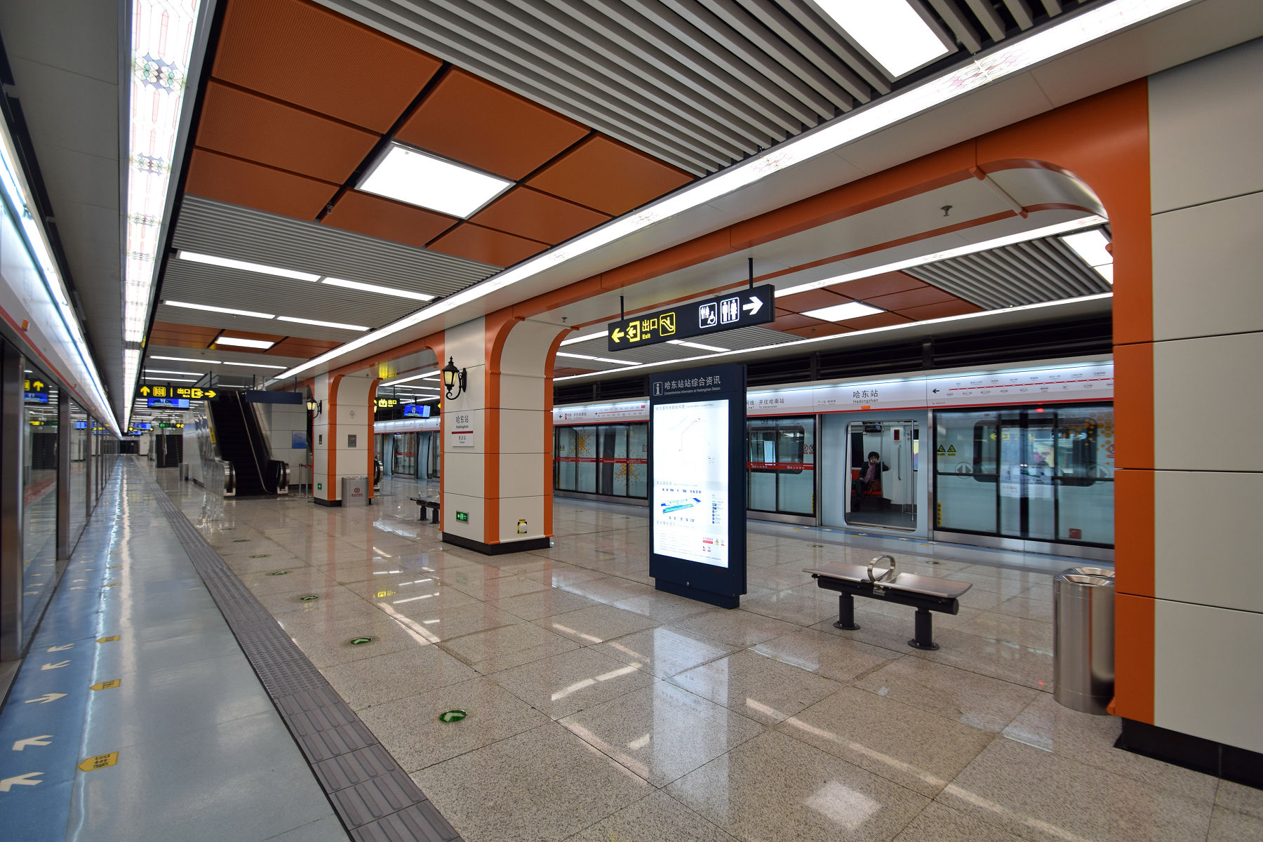 Platform of Hadongzhan Station, Harbin Metro Line 1 (northernmost & easternmost metro station in China)